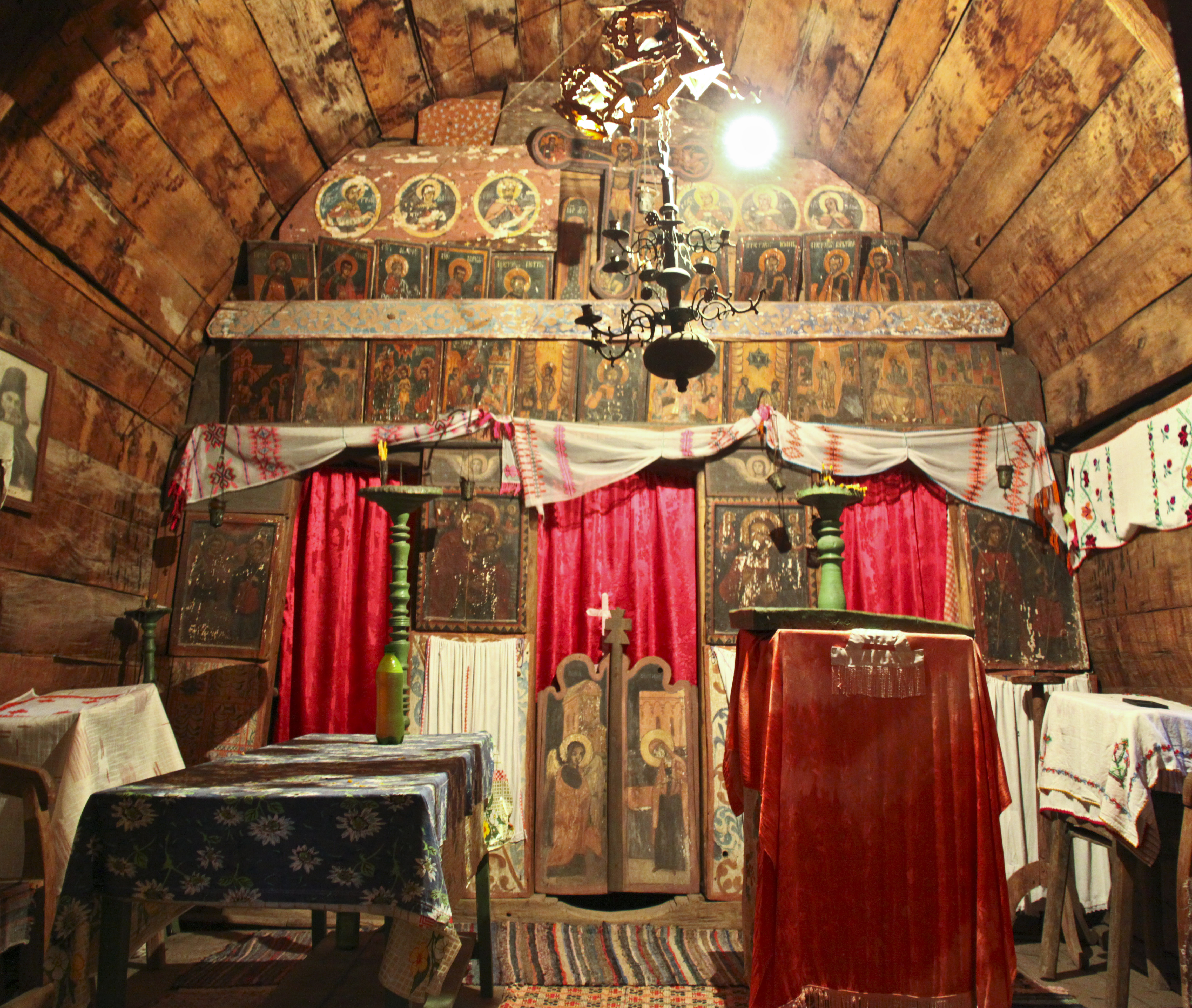 Dămţeni-Păsărei, Vâlcea county, Romania: the wooden church.